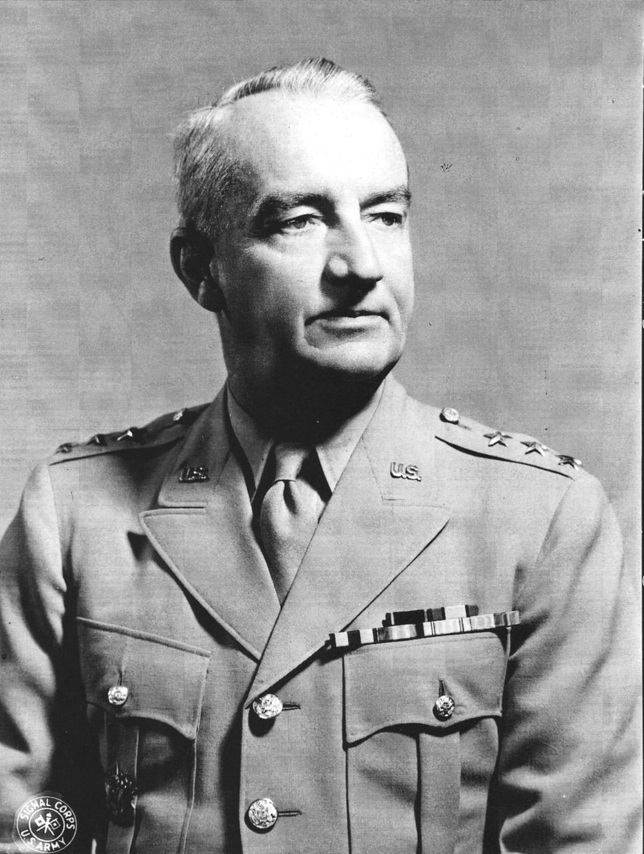 Lieutenant General Robert Eichelberger